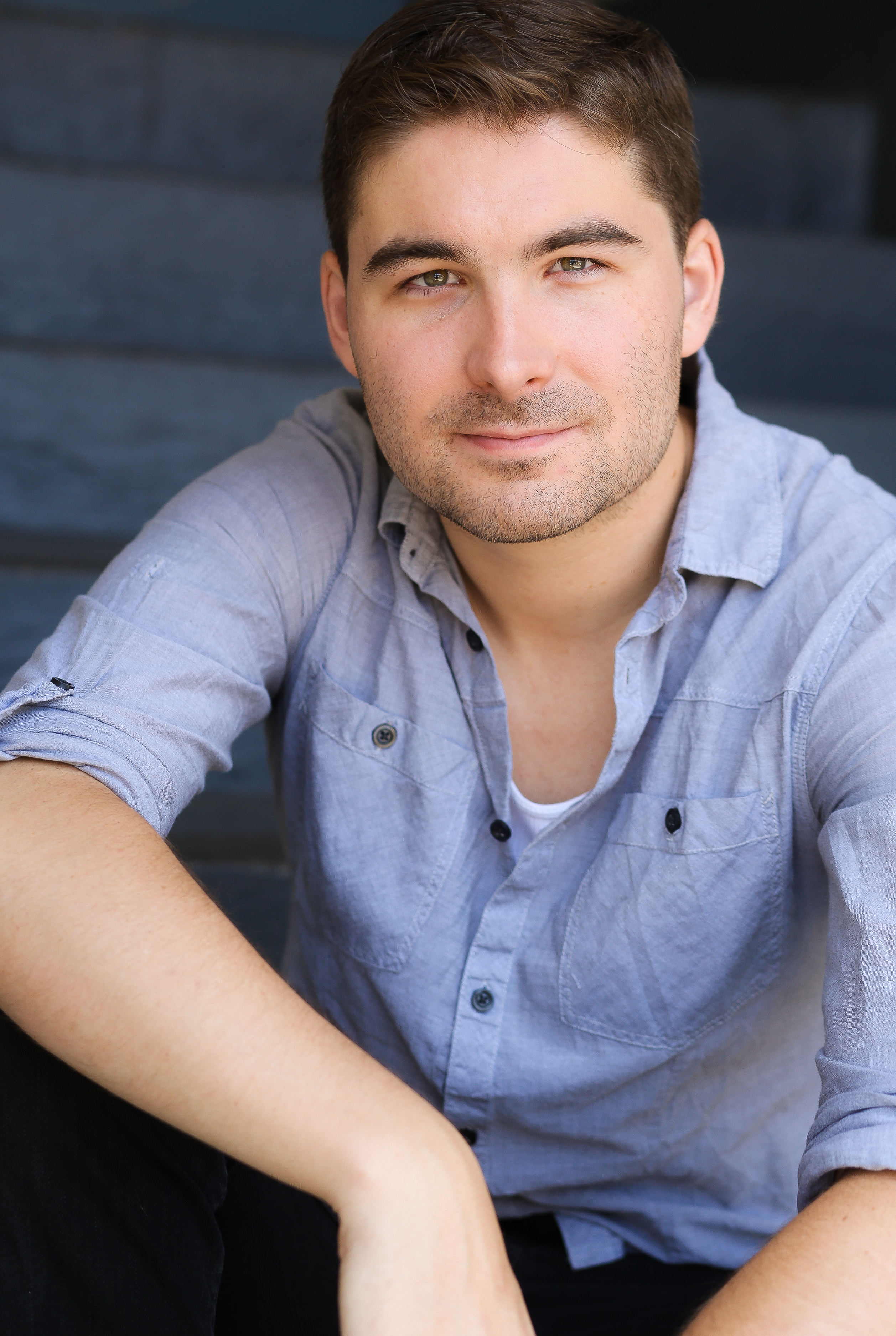 Writer and film director James Kicklighter